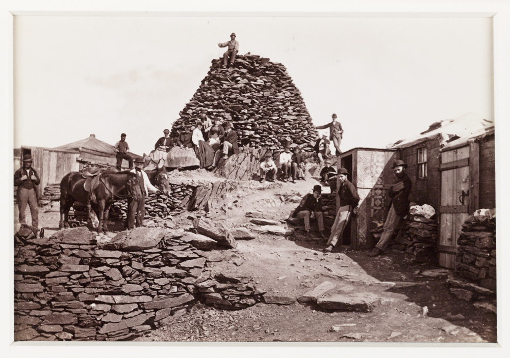 Creator: Francis Bedford (1816 - 1894) Date: c. 1880 Format: Albumen print Collection: National Media Museum Collection Inventory no: 1990-5037_B1_0451 On the Summit of Mount Snowdon in Wales.